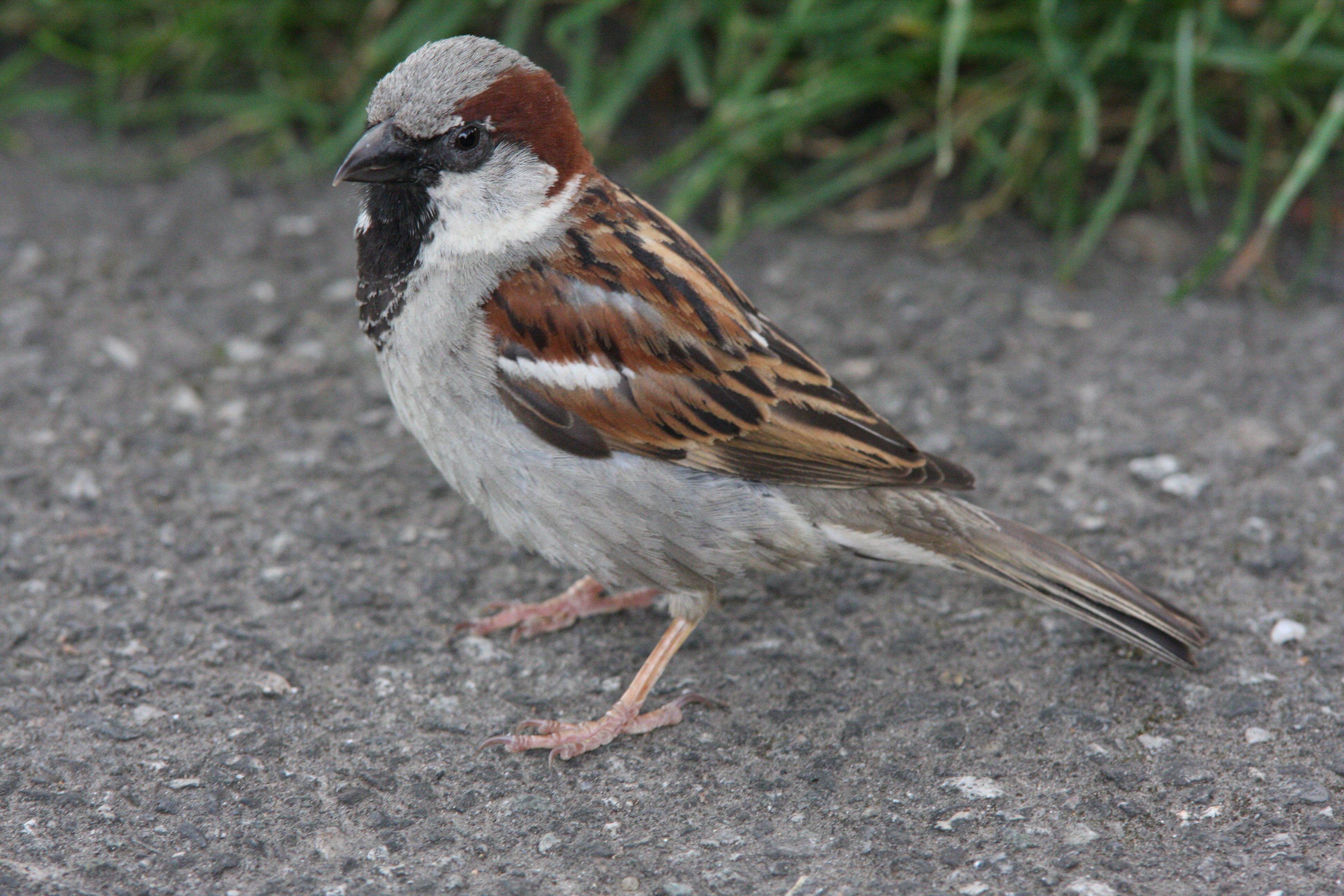 House Sparrow